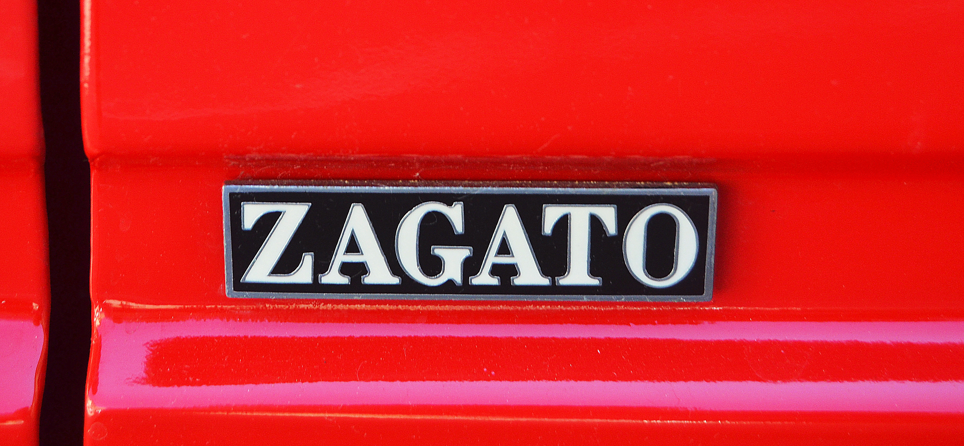 Badge of Zagato on a Maserati Biturbo Spyder